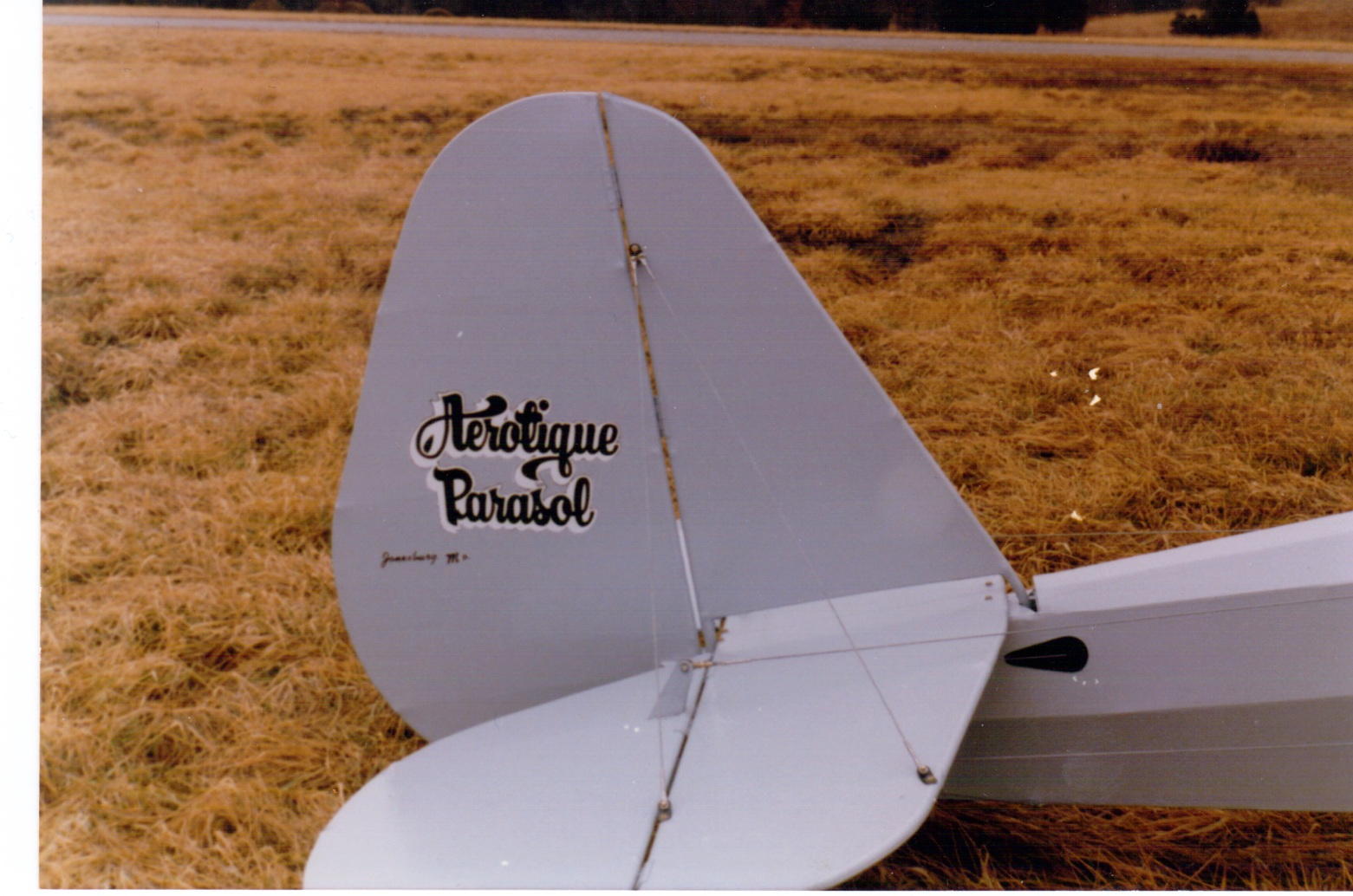 Tail view of Aerotique Parasol